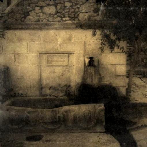 A well of village Pombia of Crete.